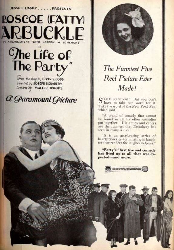 Advertisement for the American silent comedy film Life of the Party (1920) with Roscoe Arbuckle, Julia Faye, and Viora Daniel, on page 19 of the December 18, 1920 Exhibitors Herald.